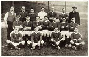 The Manchester United team at the start of the 1913-1914 season – note the ‘Welsh Wizard’, Billy Meredith, at the back left.